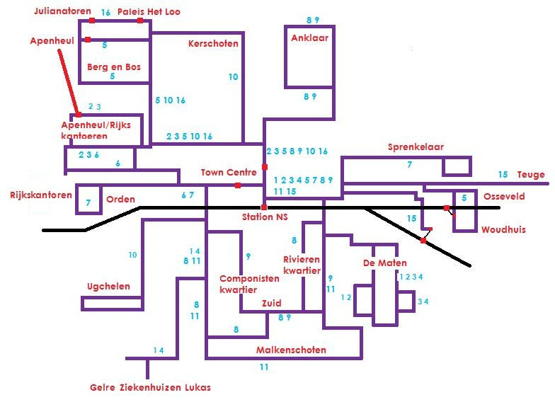 A rough Network map of the Stadbus Plus